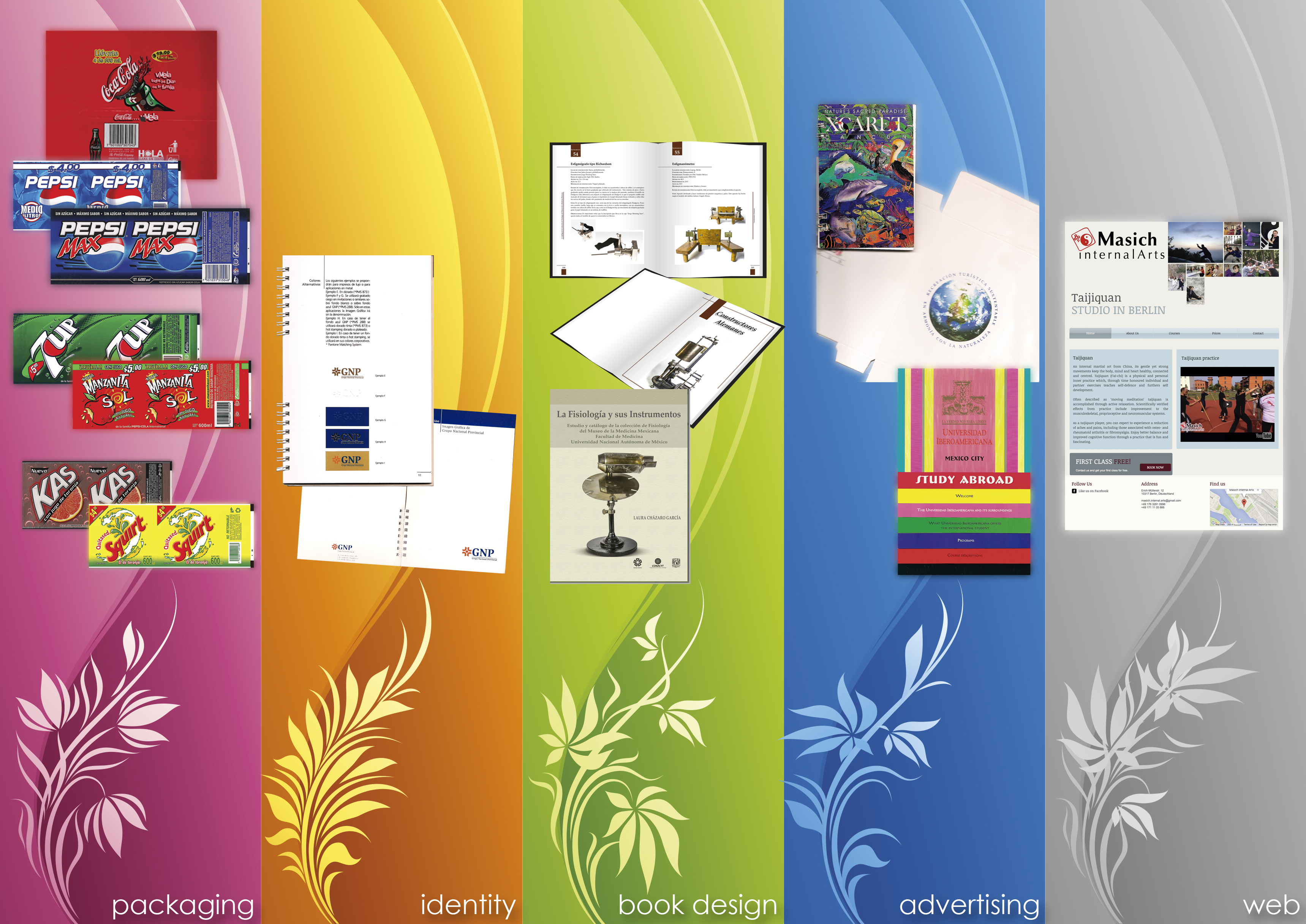 Diseño gráfico